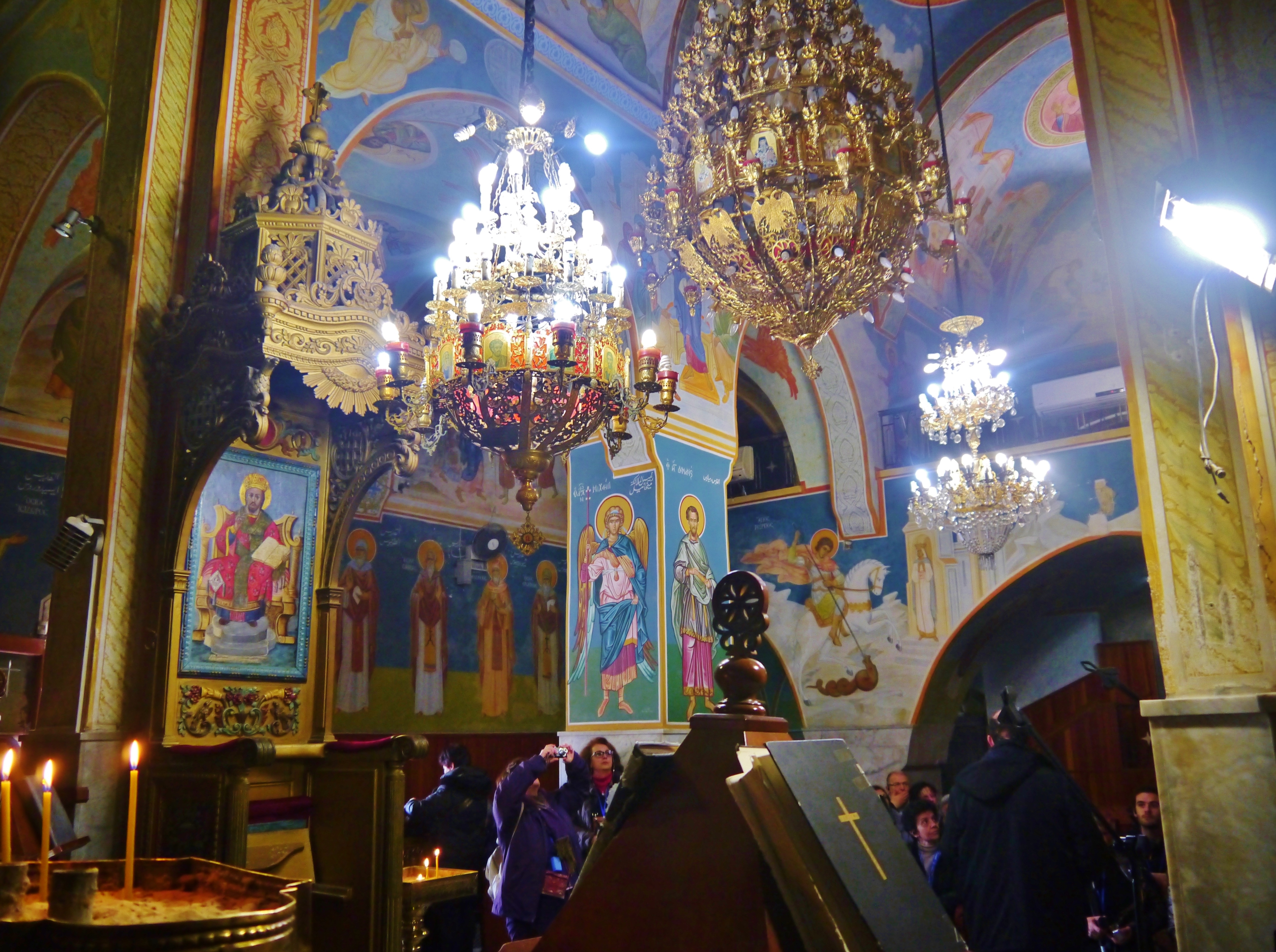 Nave of the Greek Orthodox Church of the Annunciation, Nazareth, Israel